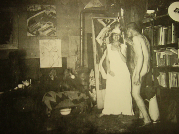 Photograph by Ernst Ludwig Kirchner in 1915 of his Berlin Studio at Körnerstraße 45 in Berlin-Steglitz. Kirchner's student Werner Gothein and his partner Erna Schilling sit on the bed. In front of them are a woman of unknown identity and Hugo Biallowons, naked, an Expressionist dancer. The painting behind them is Dodo with a Large Fan (1910) by Kirchner.